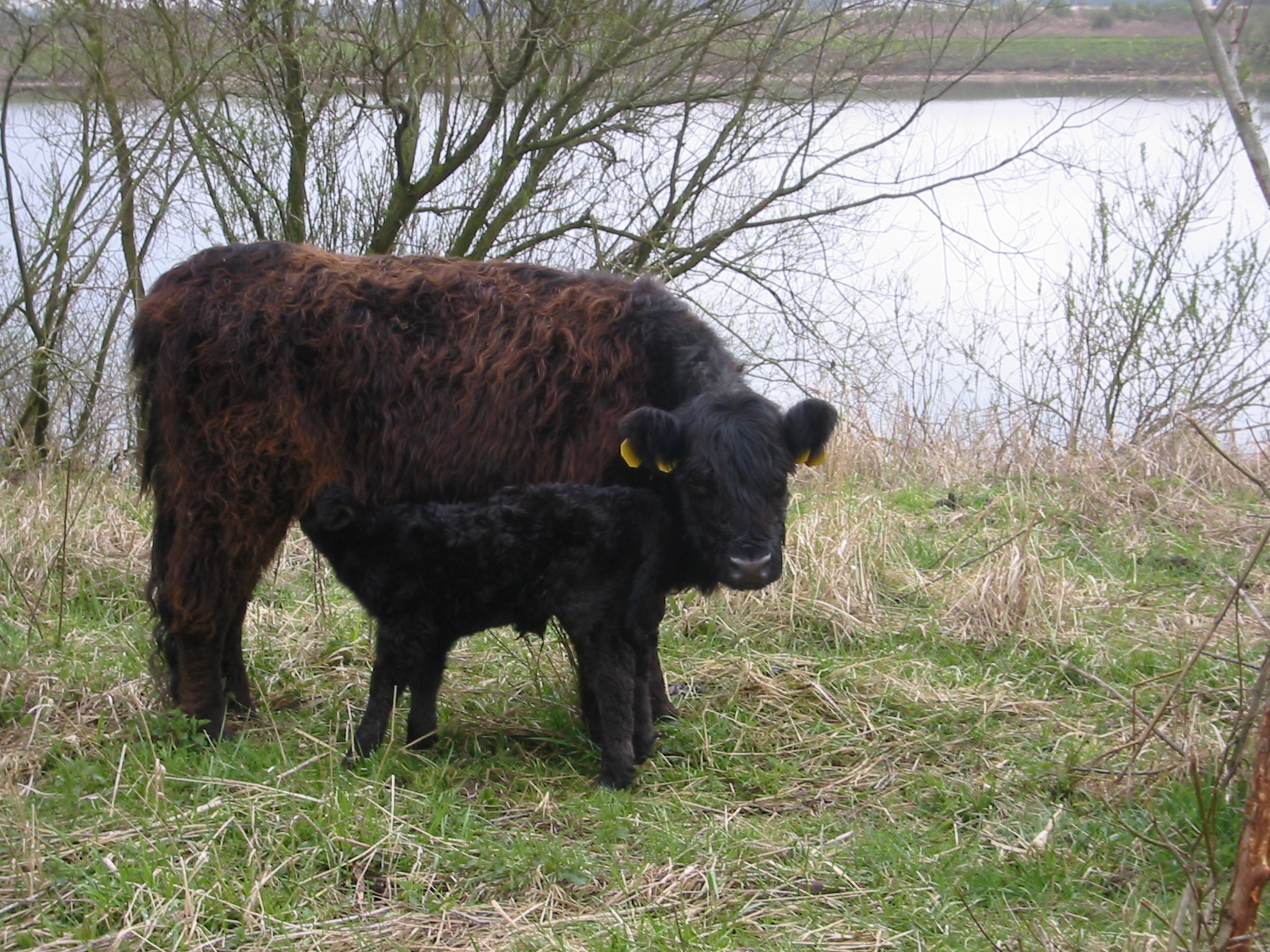 Black gallowaycow and calf. "Natural area" of Millingerwaard, Netherlands.